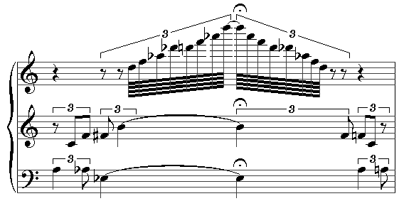 The mirror-point from Alban Berg's opera Lulu. Some notes have been omitted to make it easier to read and to keep the size of the image down.